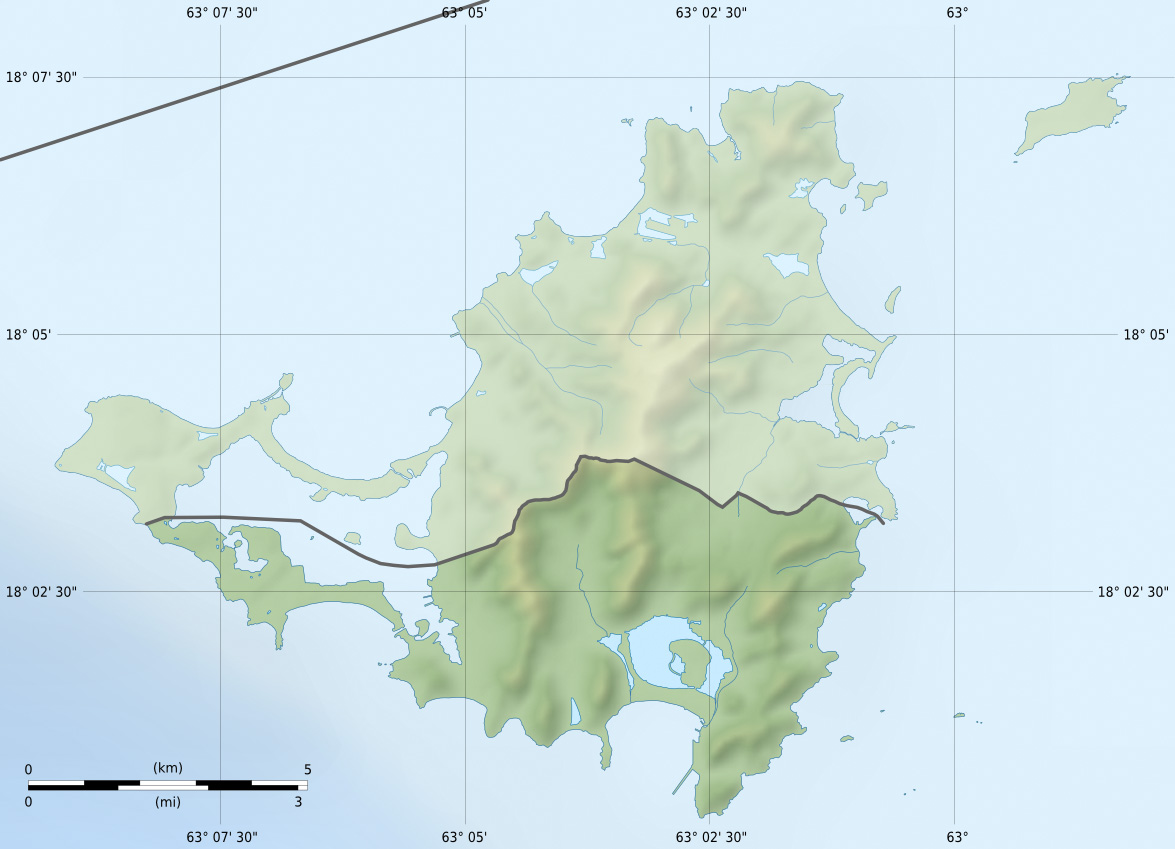 Blank physical map of Sint Maarten, constituent country of the Kingdom of the Netherlands, for geo-location purpose.